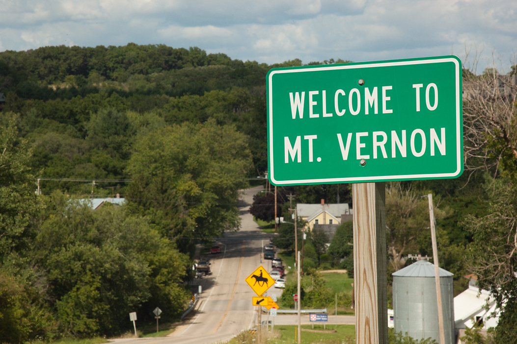 Downtown Mount Vernon, Wisconsin.